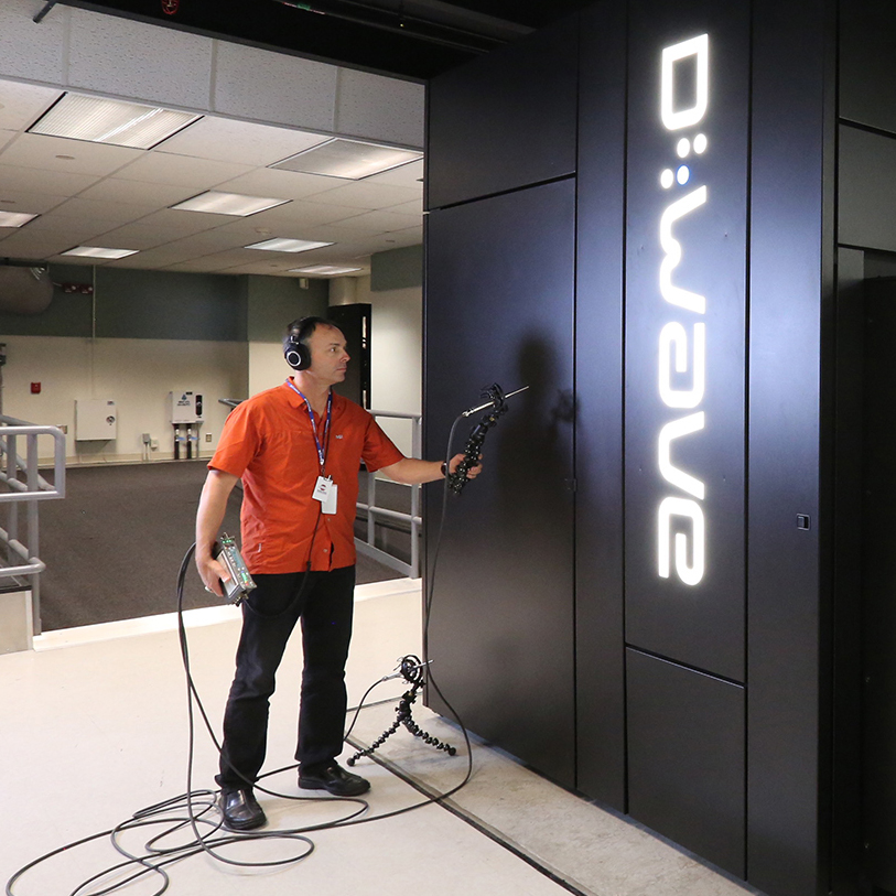 Charles Lindsay (2014) with the D-Wave Quantum Computer